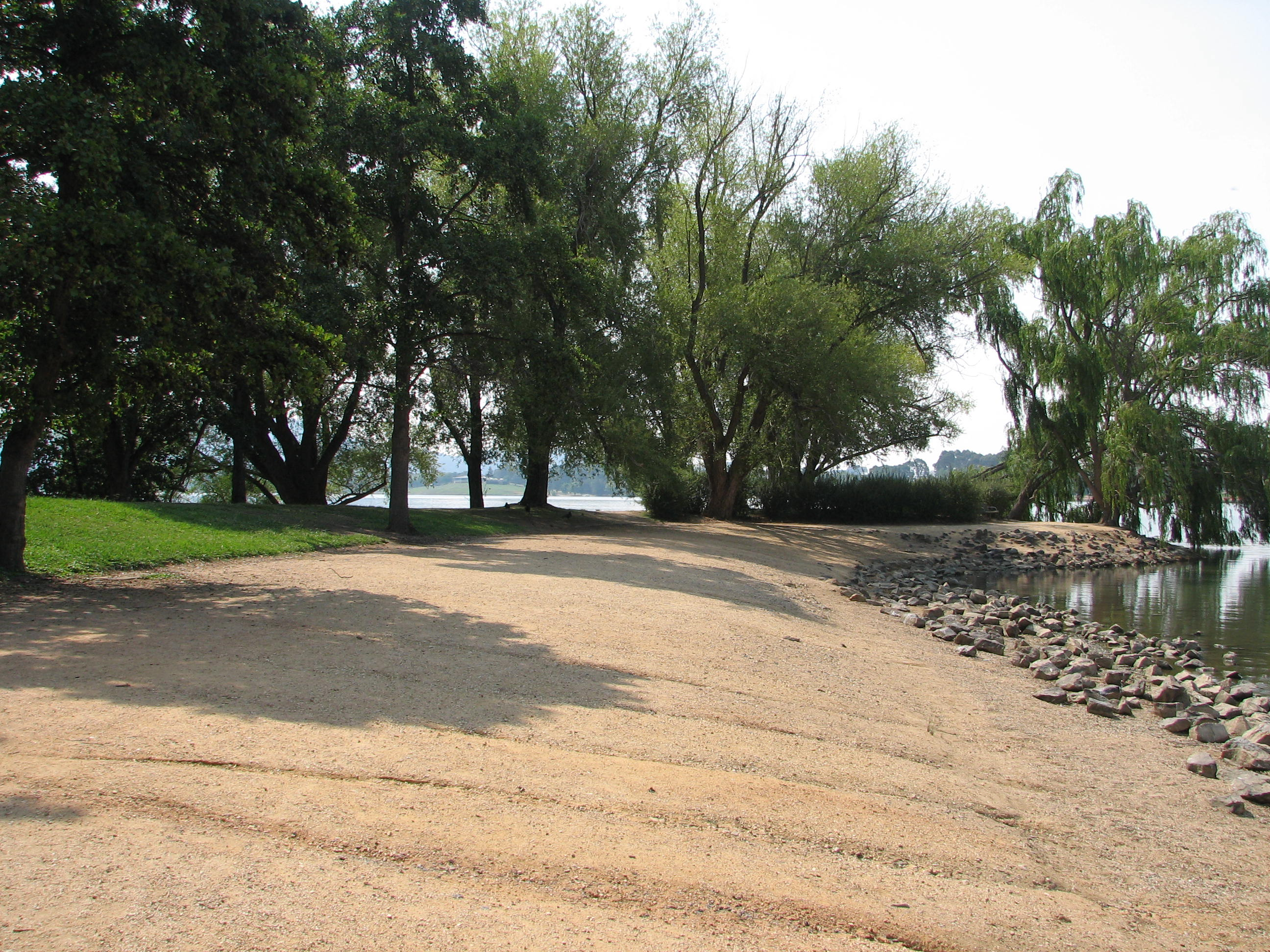 Aspen Island on Lake Burley Griffin in Canberra, Australia. Taken by me on 14th January 2007.